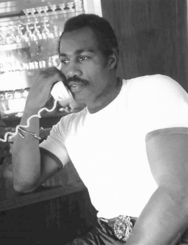 1976 Press Photo Boxer Ken Norton on the phone in his home - mjb73781